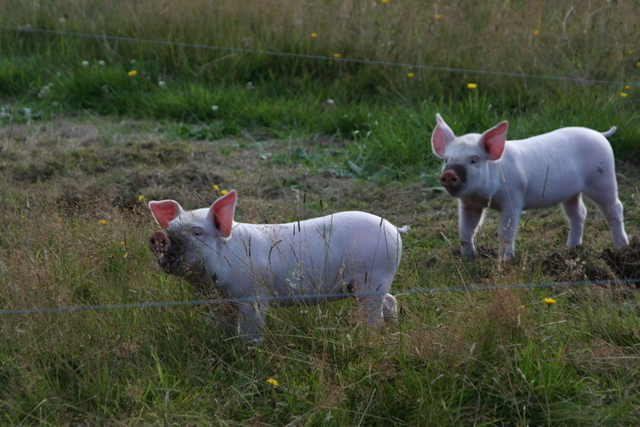 Piglets at Ardmore